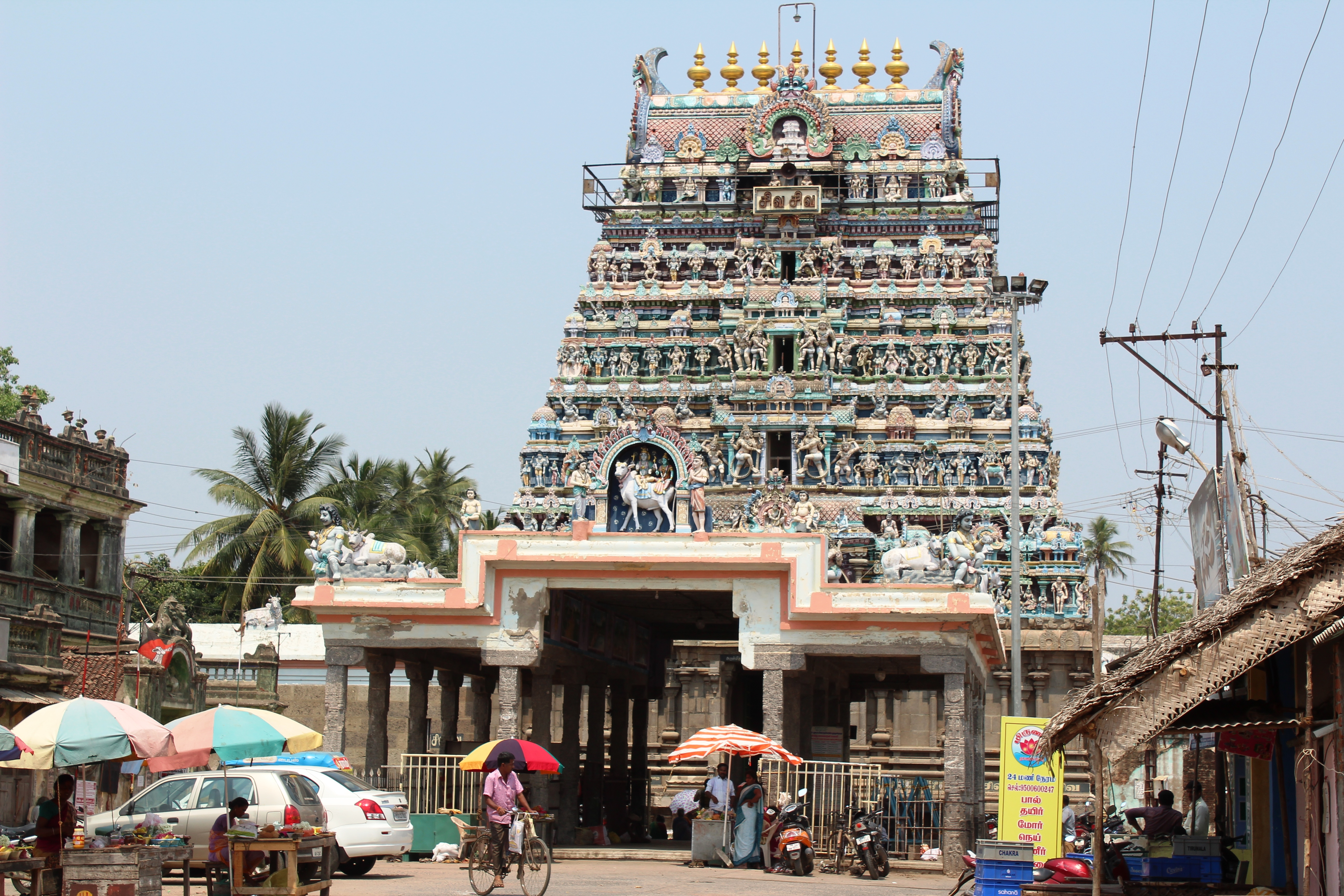 Padaleeswarartemple